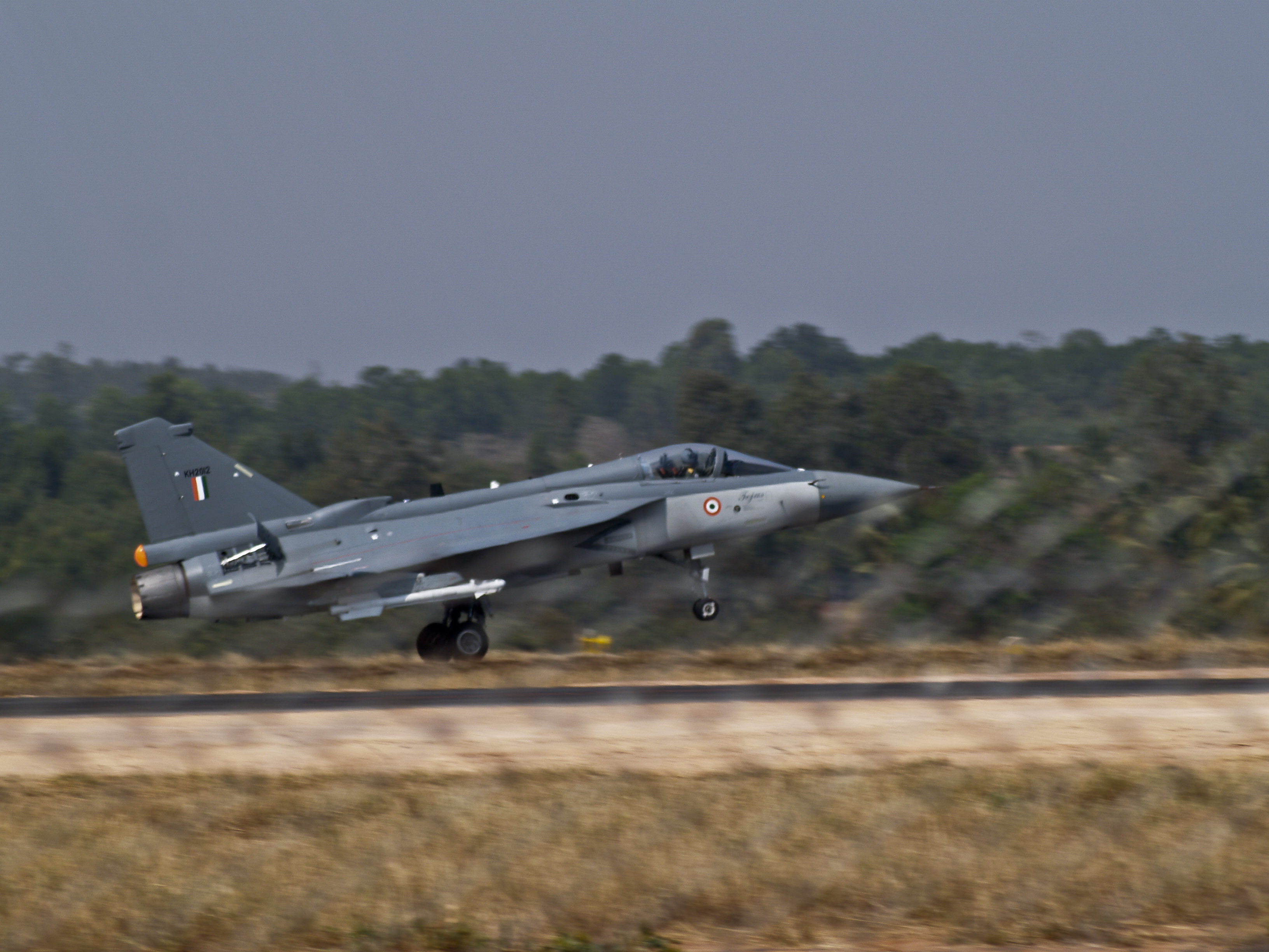 A Wheelie from the Speed monster